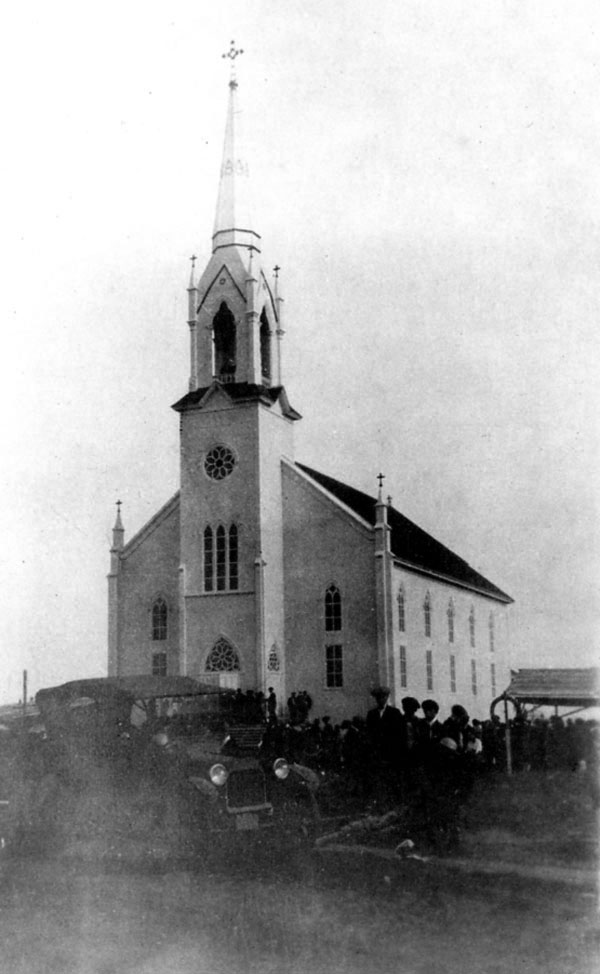 Group outside Saint-Simon Roman Catholic Church, ca. 1930’s.